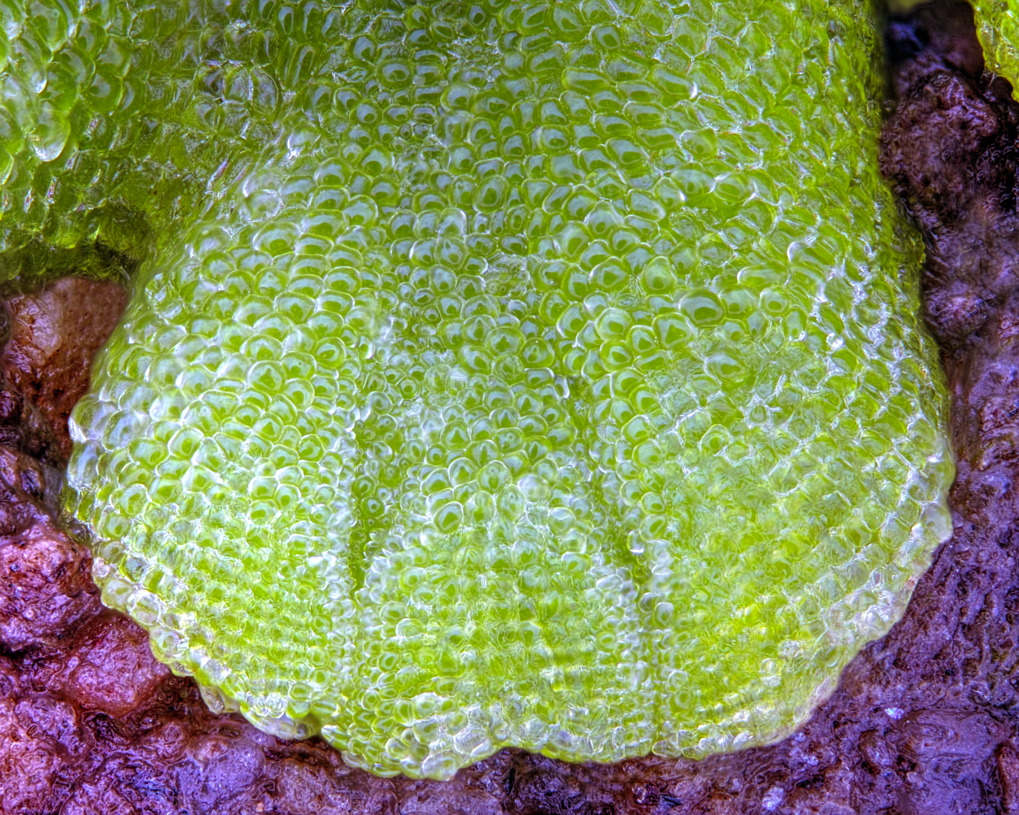 Tip of gametophyte thallus of Riccia glauca